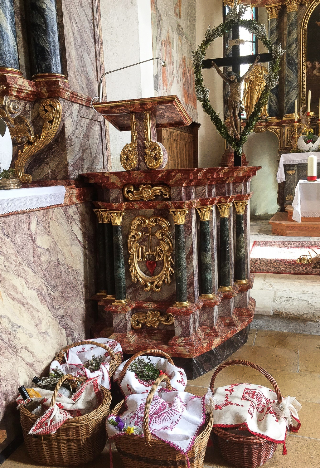 Blessing of the Easter baskets on Holy Saturday in the Catholic churches of Carinthia, Austria, European Union